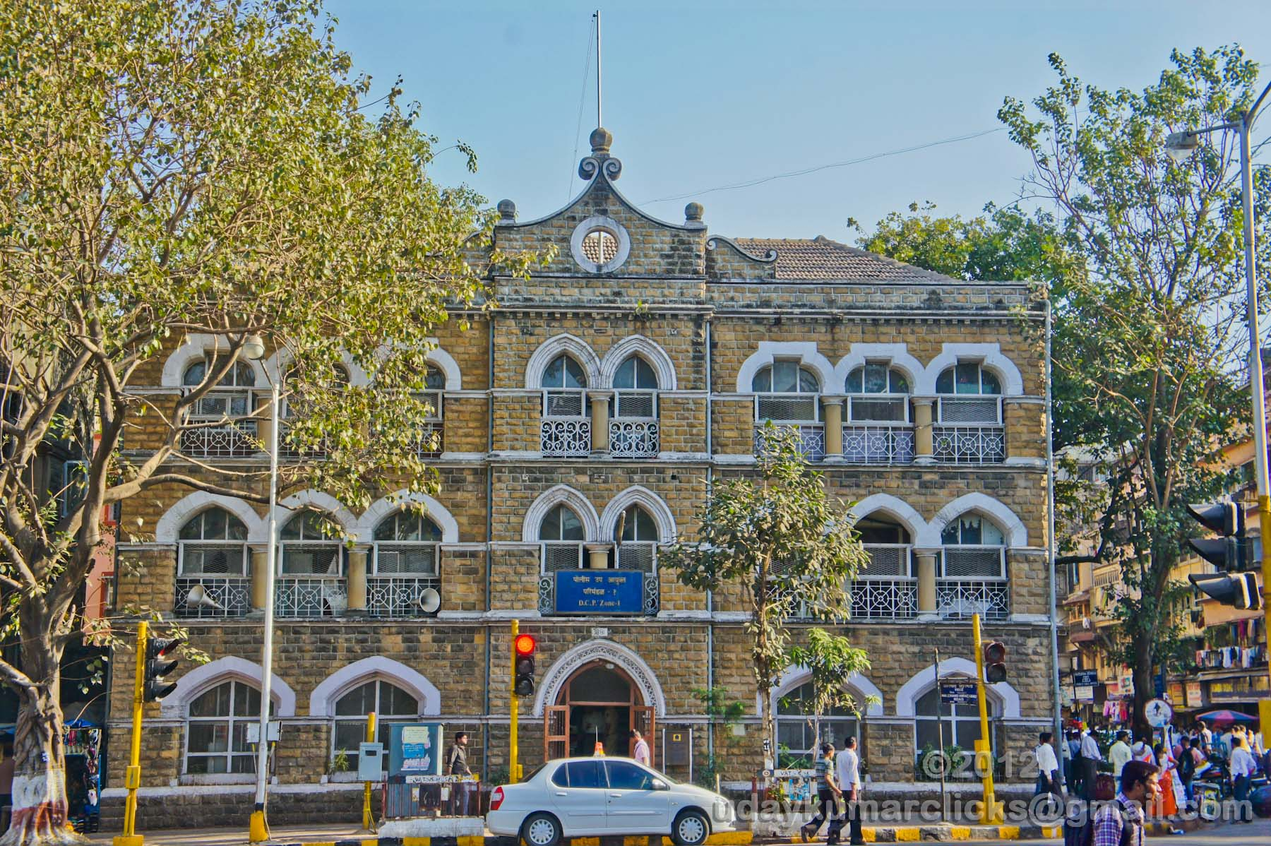 Mumbai Police Zonal office No 1